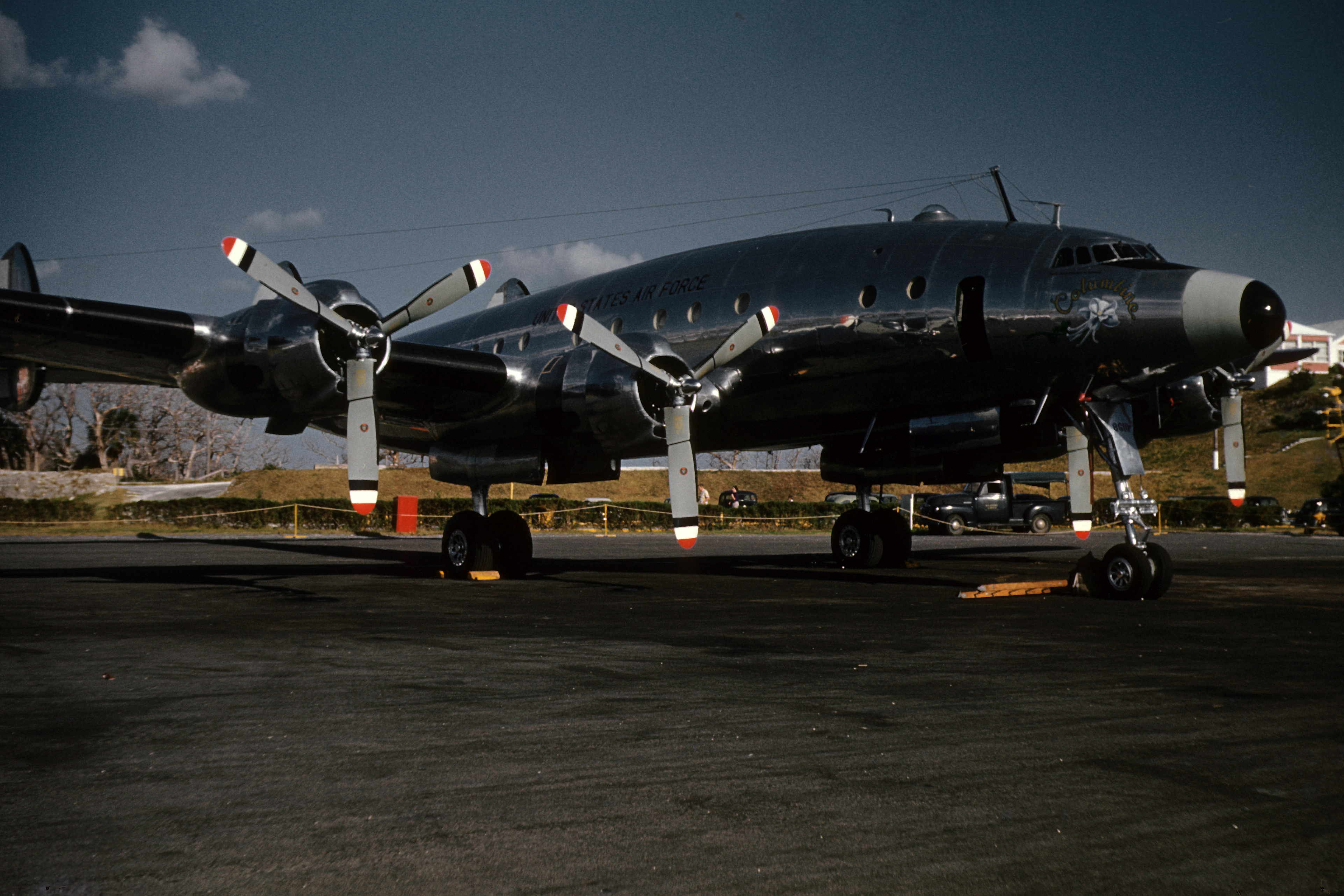 My father took this color slide photo in December 1953 while in the US Air Force and stationed at Kindley Air Force Base Bermuda where the photo was taken. It is a photo of the aircraft that President Eisenhower traveled on to get there.